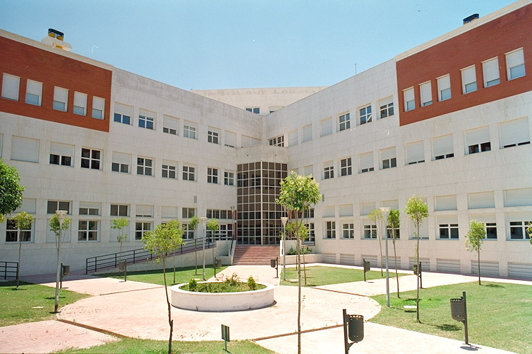 Edificio Multidepartamental Ciencia y Tecnología de la Edificación, Administración y Dirección de Empresas, Turismo y Enfermería